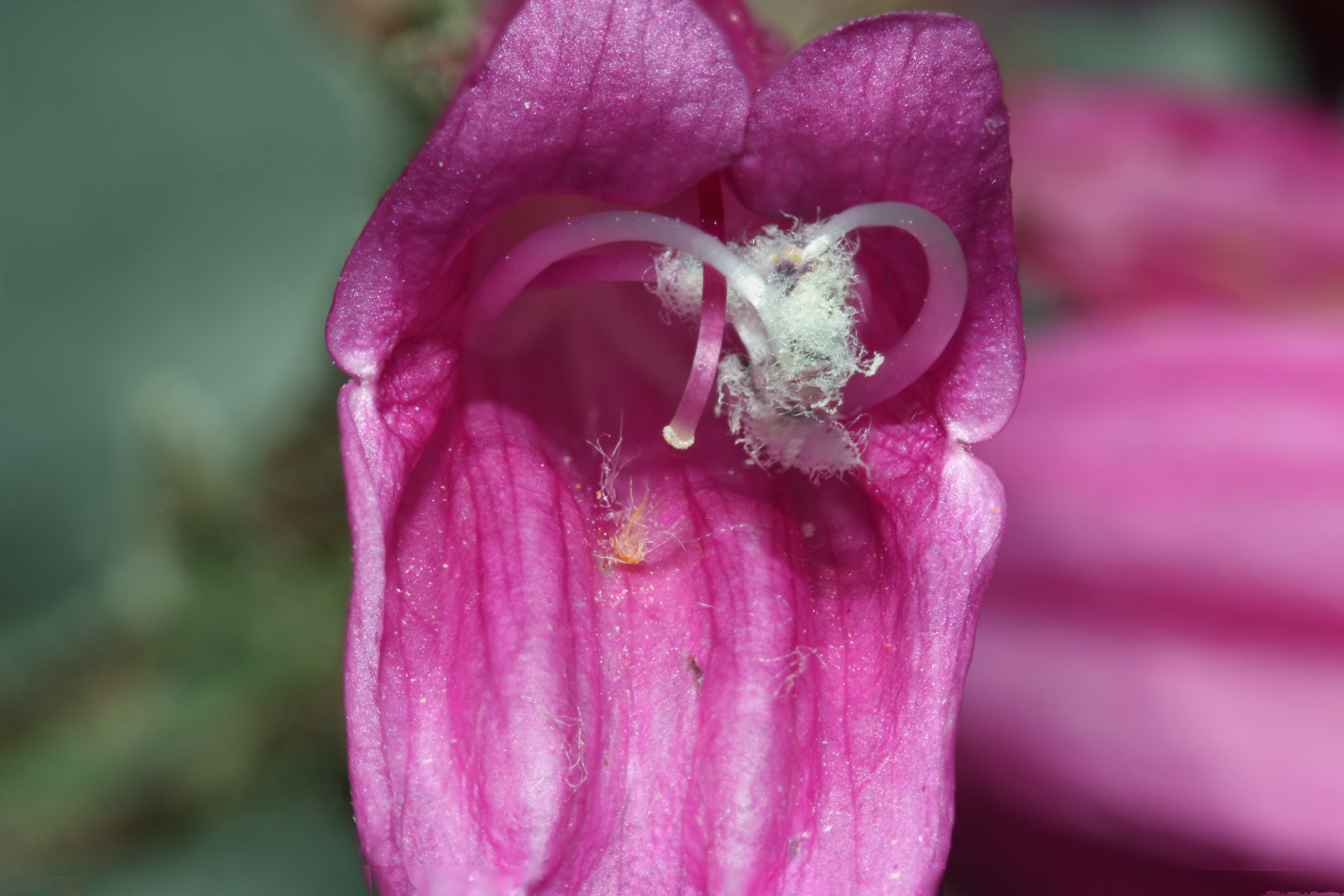 Rock Penstemon, Cliff Beardtongue; focus stack from other versions (Helicon Focus)